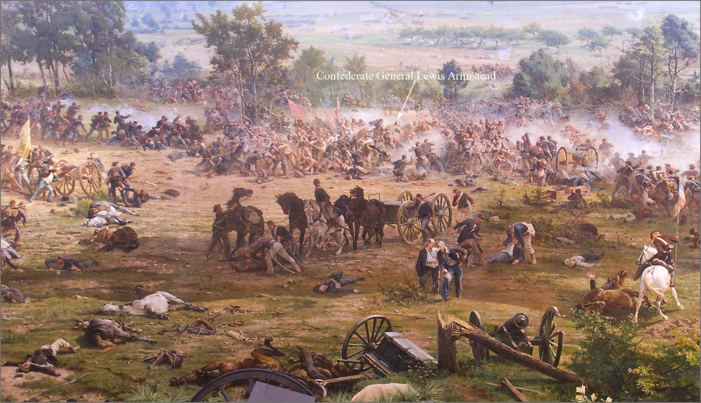 'The Battle of Gettysburg', also known as the Gettysburg Cyclorama, is a cyclorama painting by the French artist Paul Philippoteaux depicting "Pickett's Charge", the climactic Confederate attack on the Union forces on Cemetery Ridge during the Battle of Gettysburg on Friday afternoon July 3, 1863. The section of the Cyclorama shown above depicts Confederate General Lewis Armistead struck by rifle fire while leading his brigade in a break-through of the Union infantry line on Cemetery Ridge at an area known as "The Angle". Armistead's brigade arrived at Gettysburg on the evening of July 2nd. As part of the Pickett-Pettigrew Charge on the 3rd, Armistead led his brigade from the front on foot (not on a horse as portrayed above), waving his hat from the tip of his saber, and reaching and climbing over the stone wall at the "Angle", which served as the Charge's objective. Armistead was shot three times just after crossing the stone wall. However, his wounds were initially not believed to be mortal, being shot in the fleshy part of the arm and below the knee. He was eventually taken to a Union field hospital at the George Spangler Farm where he died two days later. The chief surgeon at the Union hospital there had expected Armistead to survive because he characterized the two bullet wounds as not serious. He wrote that the death "was not from his wounds directly, but from secondary fever and prostration". Image at 7:15 pm July 28, 2012, by Ron Cogswell using a hand-held Nikon D80 at 1/6 sec., f/3.5, ISO 400, and 18 mm, during an after-hours presentation on the Gettysburg Cyclorama conducted by Chris Brennaman.